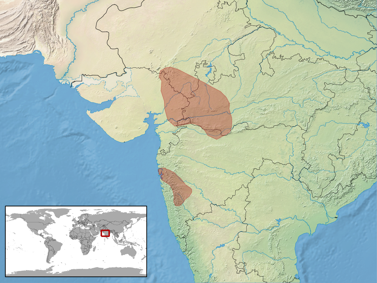 geographic distribution of Coluber gracilis (Native: India (Gujarat, Madhya Pradesh, Maharashtra, Rajasthan))